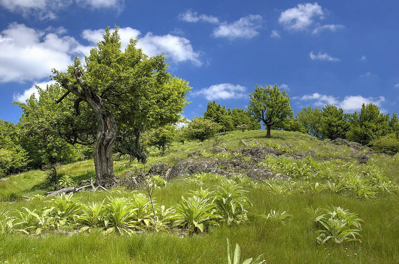 View from Klokoč